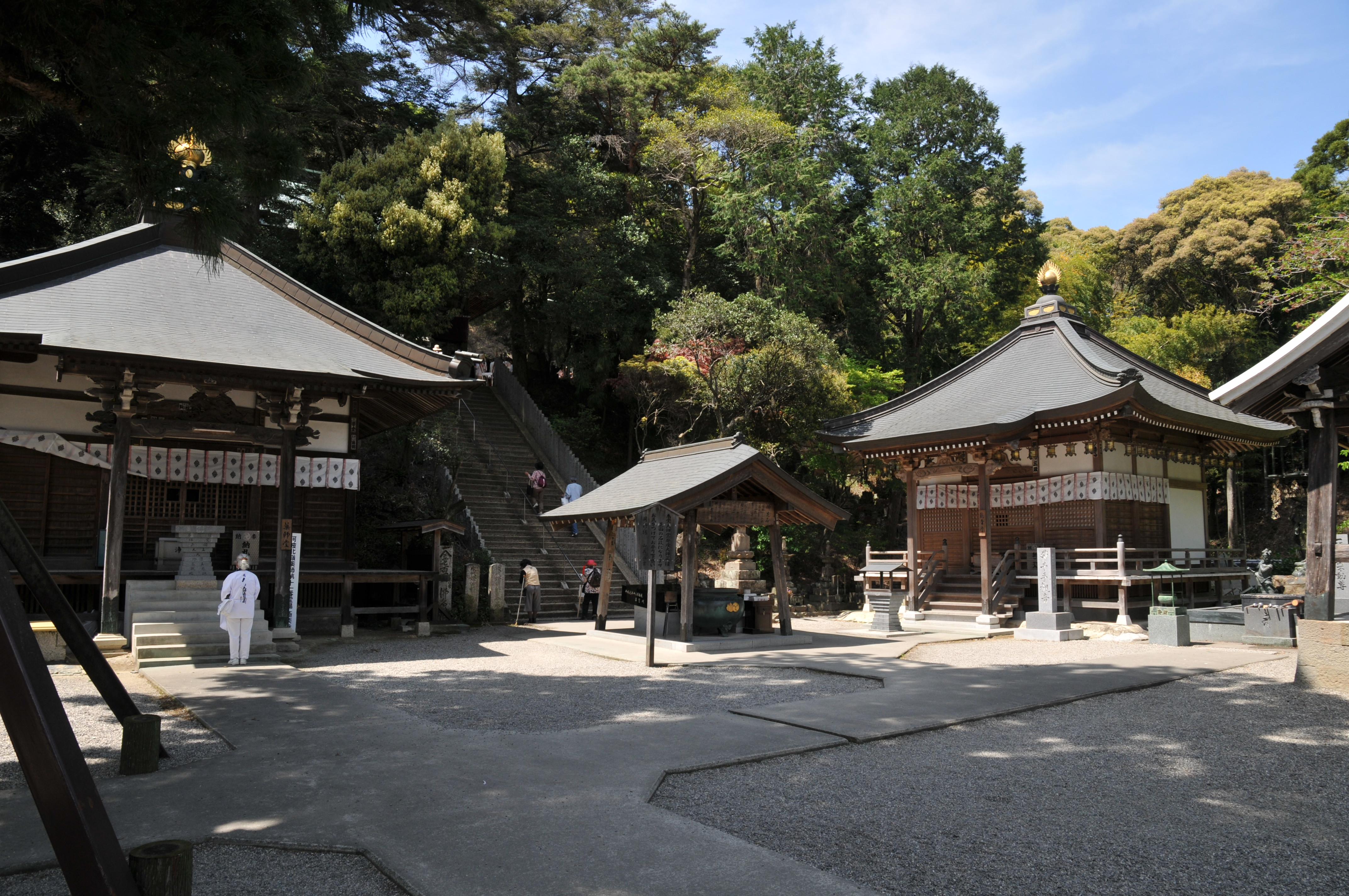 Yakushi-dō(left) and Kannon-dō(right), Gokurakuji